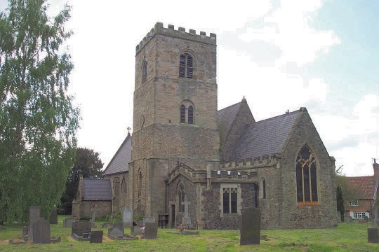 All Saints, Long Whatton